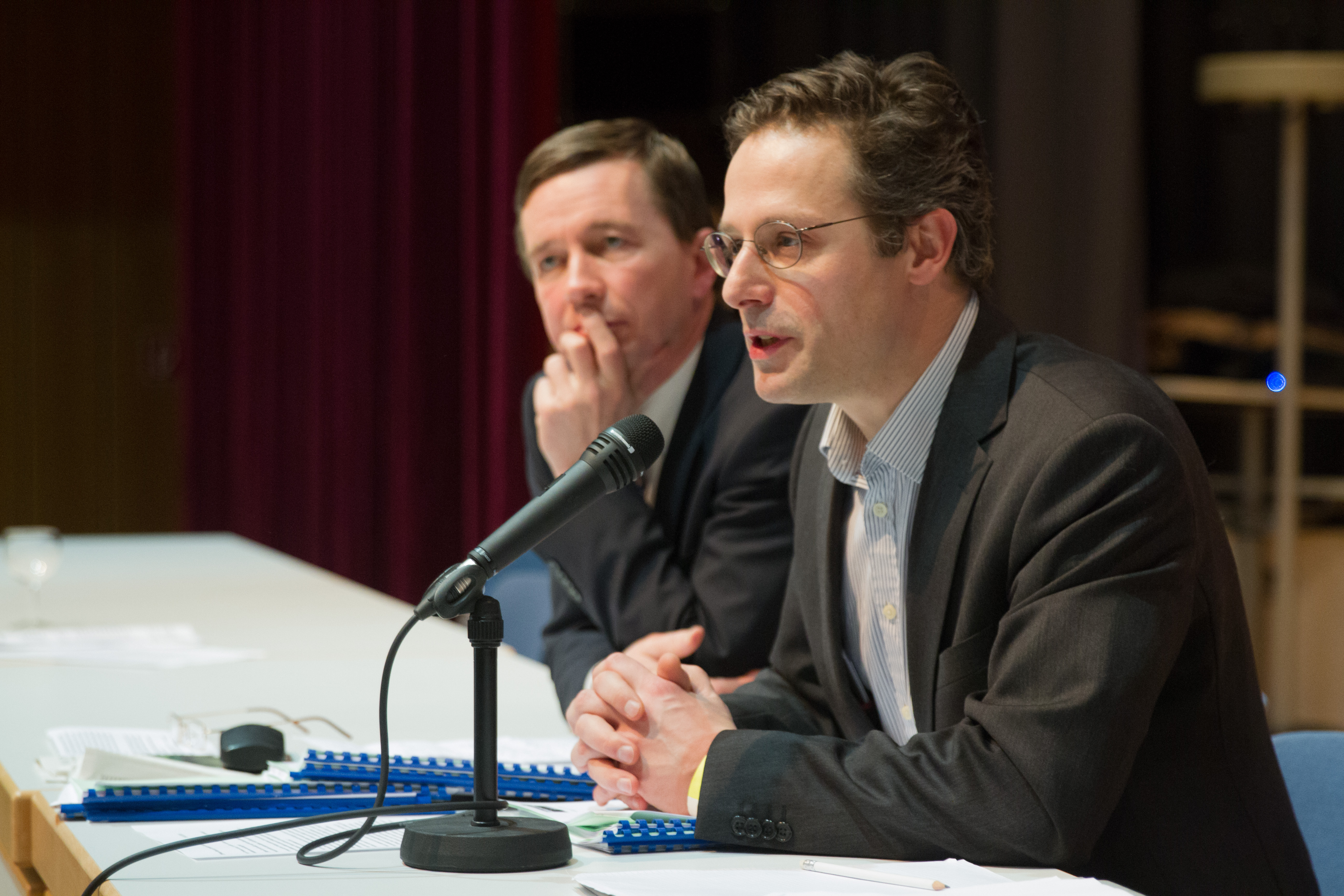 Series: 6th party convention of the AfD Baden-Württemberg in Karlsruhe-Neureuth on January 17th and 18th, 2015. Image: Marcus Pretzell